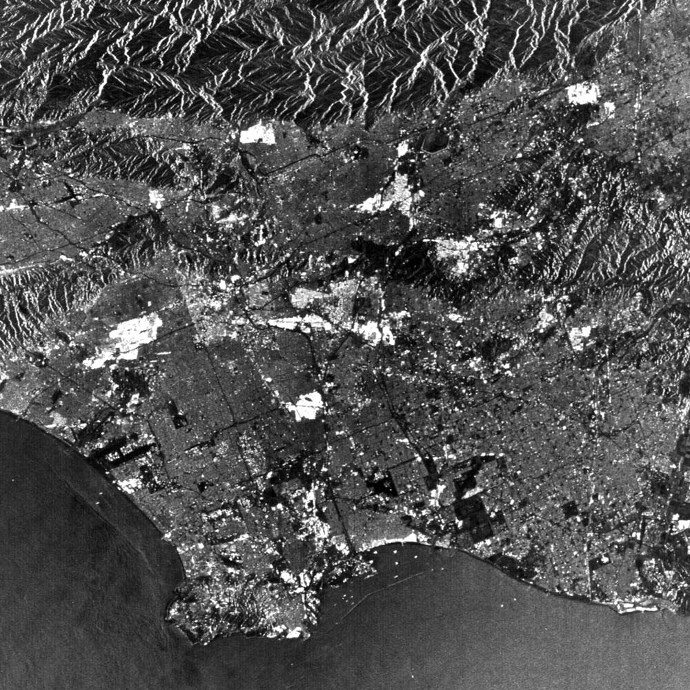 Orginal caption released with the picture: 1978 Seasat image of the Los Angeles metropolitan area